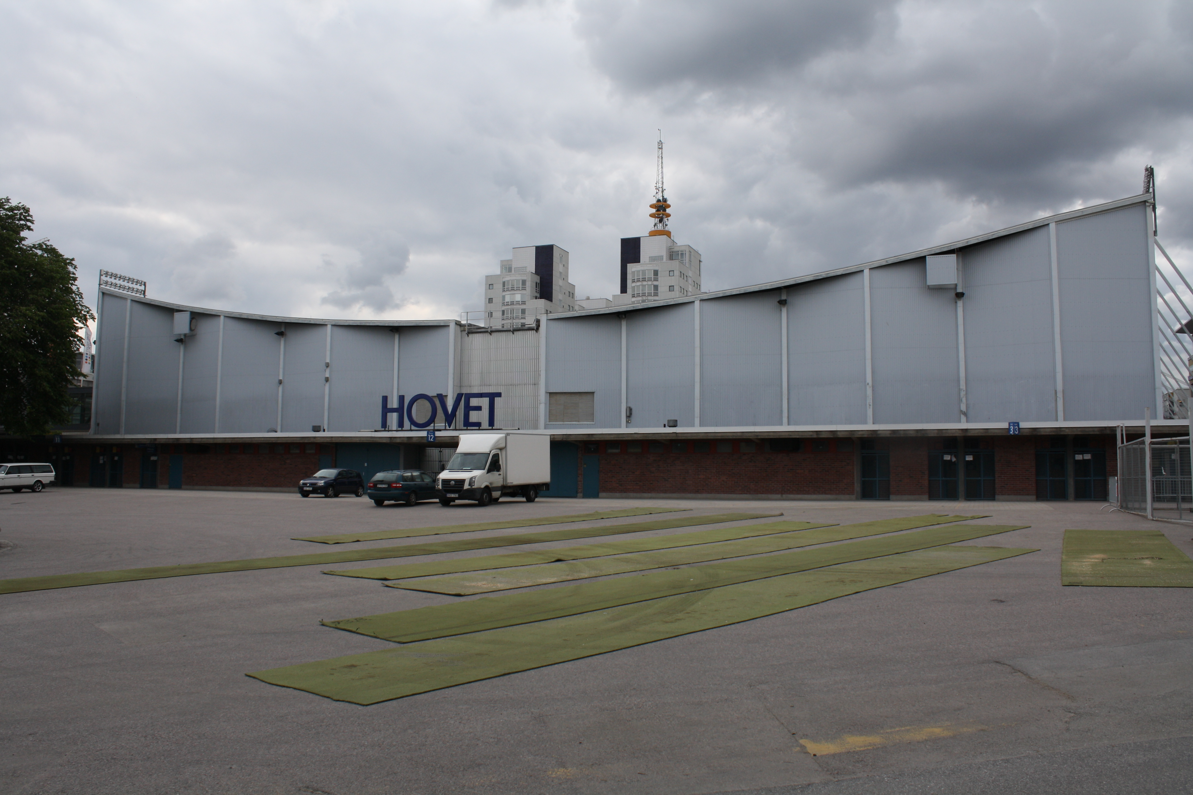 Exterior of Hovet arena. Entrances 11 to 13.